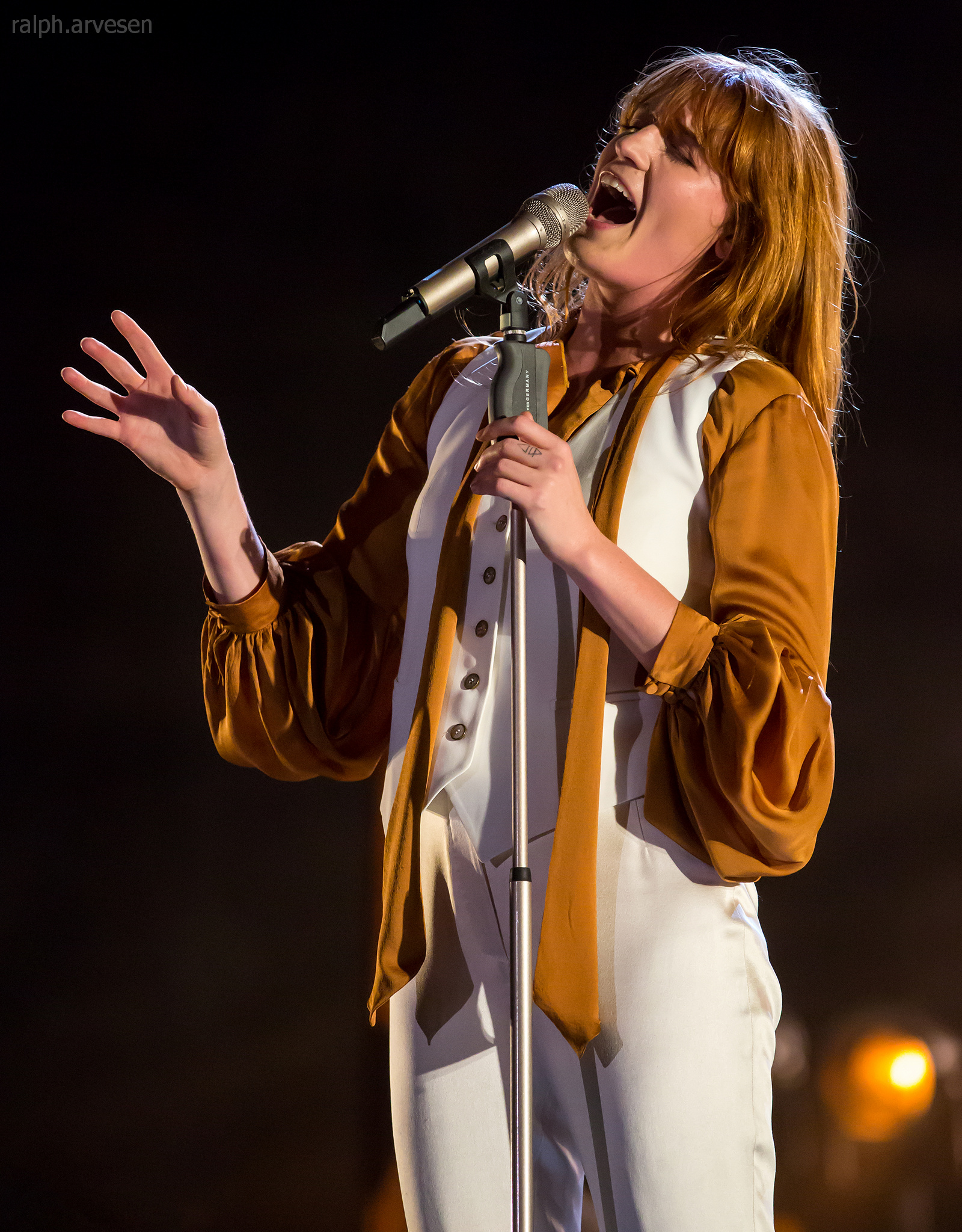 Florence and the Machine. Austin City Limits Music Festival overview from Friday, October 9 through Sunday, October 11, 2015.